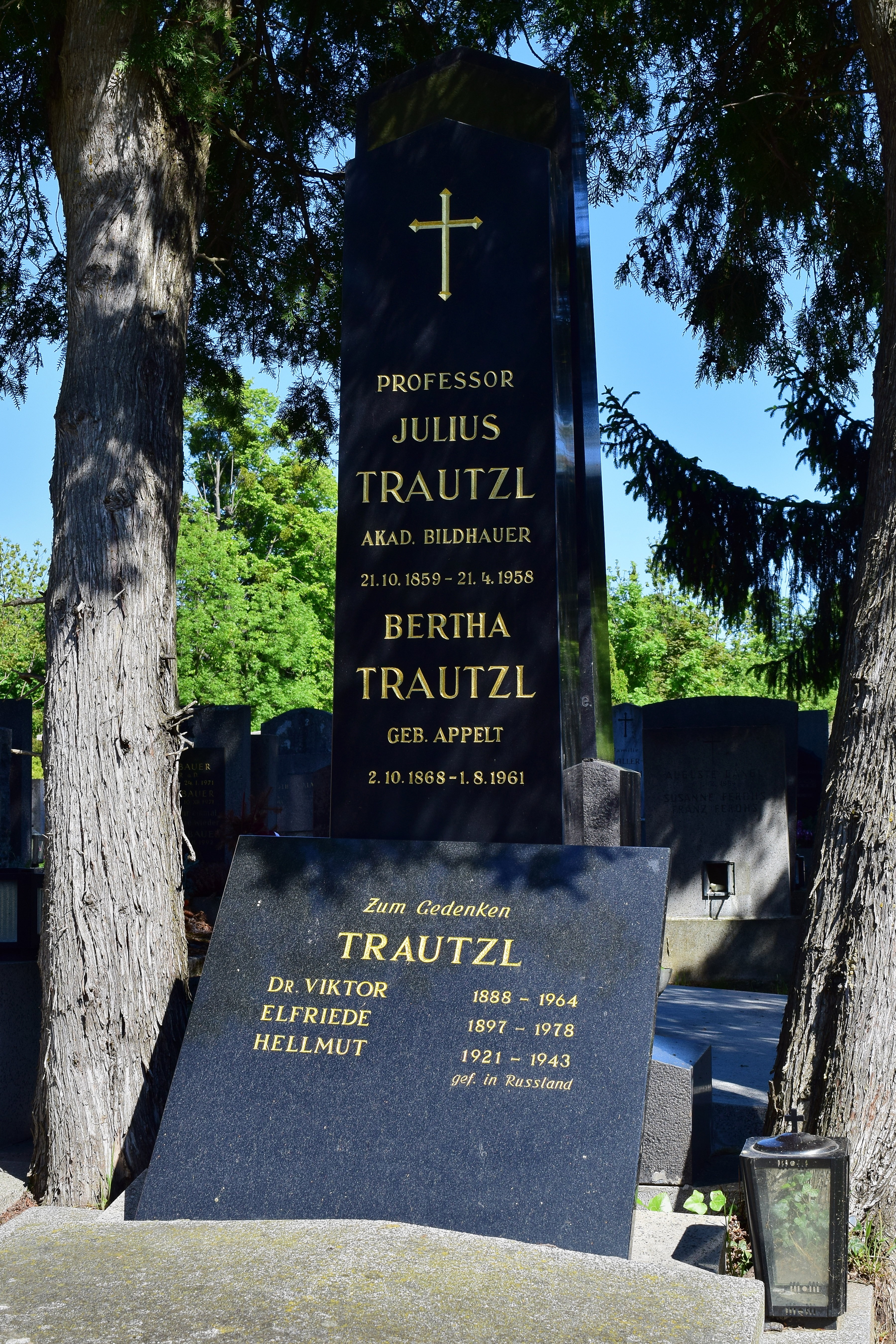 Grave of honor of Julius Trautzl at the evangelical section of the Wiener Zentralfriedhof.